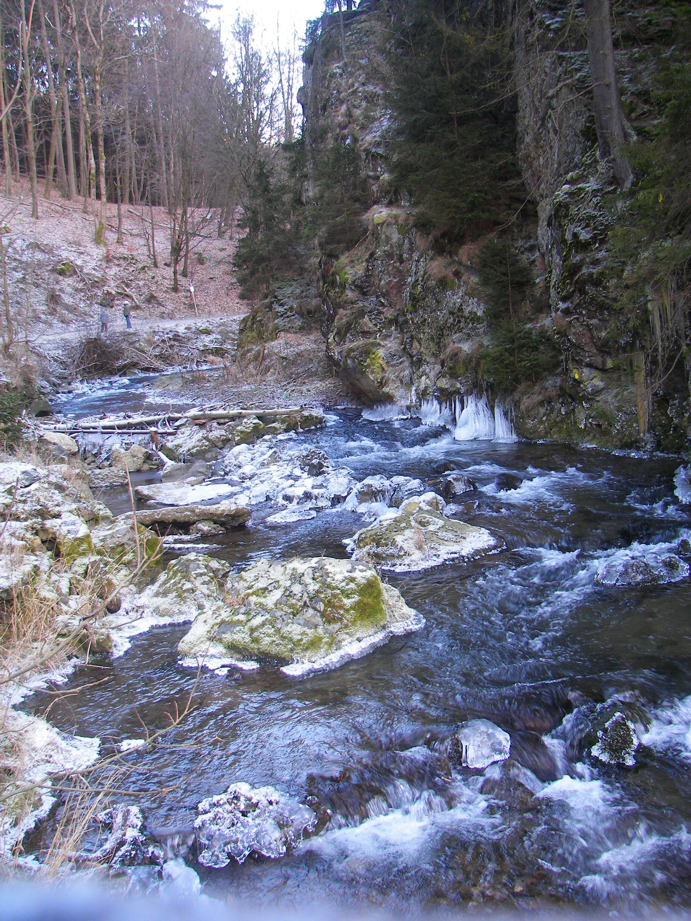 Steinachklamm in the valley of Untere Steinach river, it is a borough of Presseck.